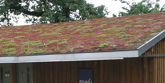 Green Roof Maples Cafe at Westonbirt Arboretum was built with timber from the arboretum and seeds were implanted in the timber. It looks amazing - planted in 2004 and looking like this 3 years on.